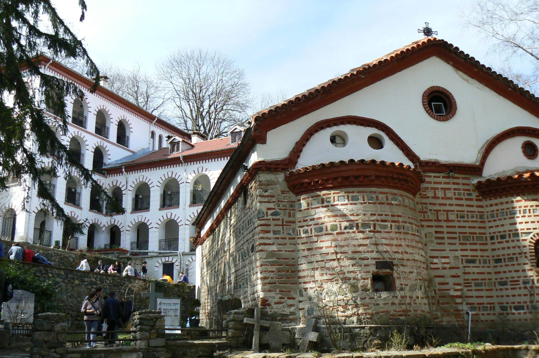 The Dragalevtsi Monastery near Sofia, Bulgaria